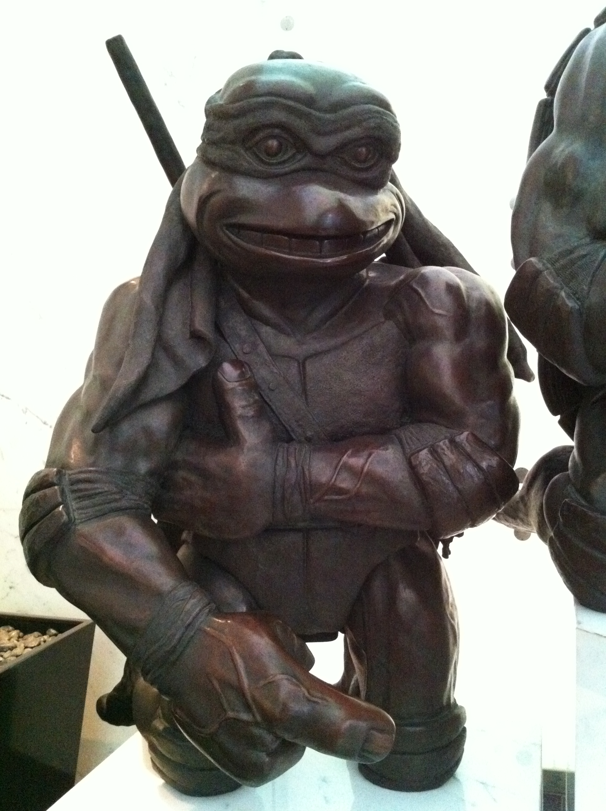 彩星集團大廈忍者龜, Statues standing in office lift lobby hall at The Toy House, No.100 Canton Road, Tsim Sha Tsui, Hong Kong